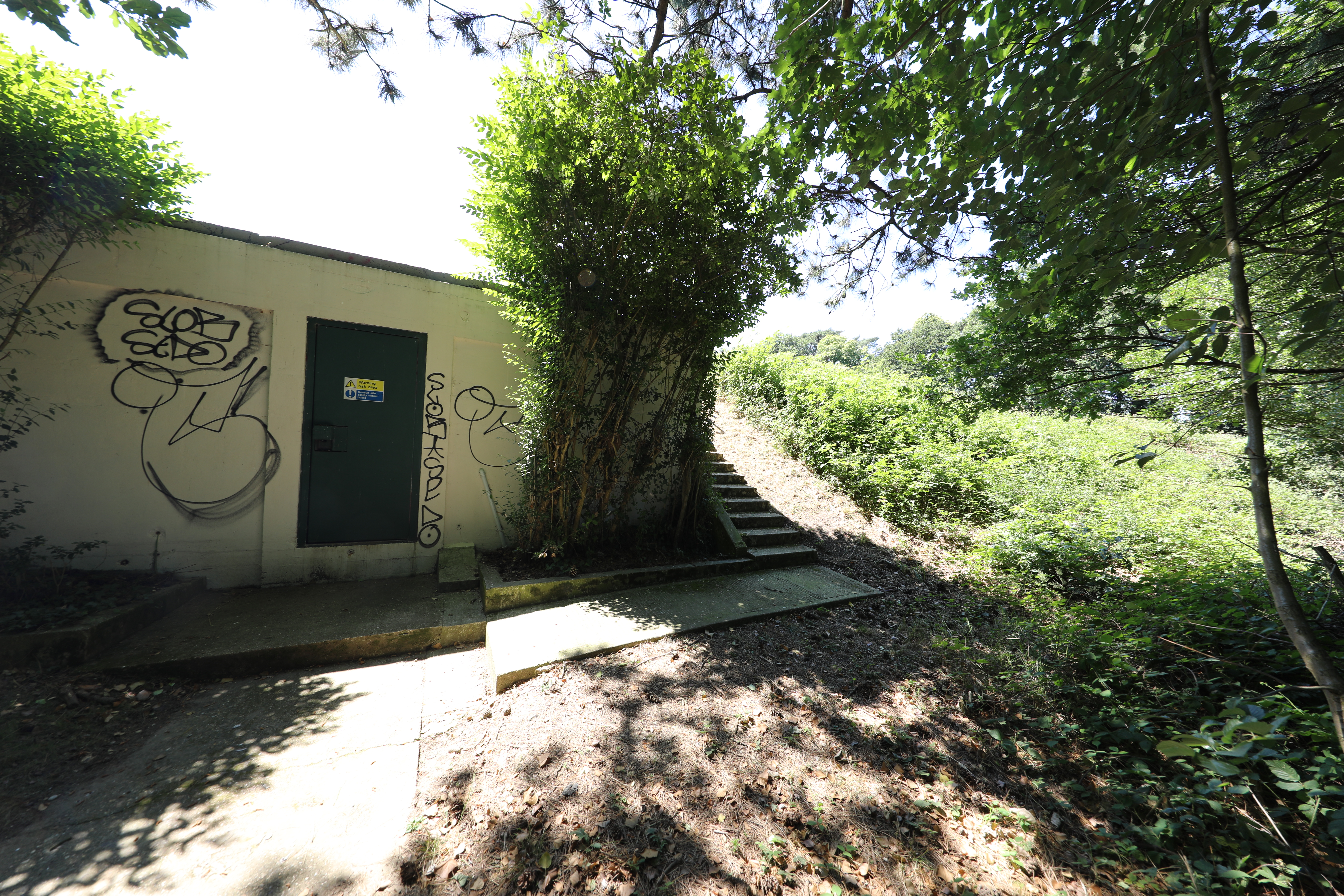 Photo of part of the exterior of the covered reservoir on Southampton common